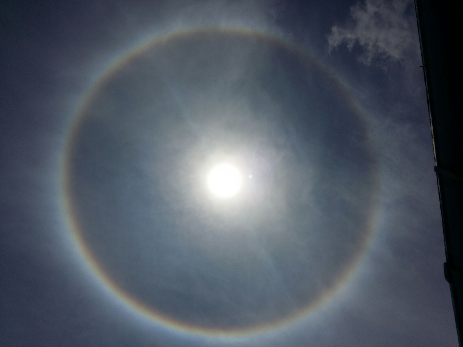 Halo solar en La Mesa Cundinamarca, Colombia